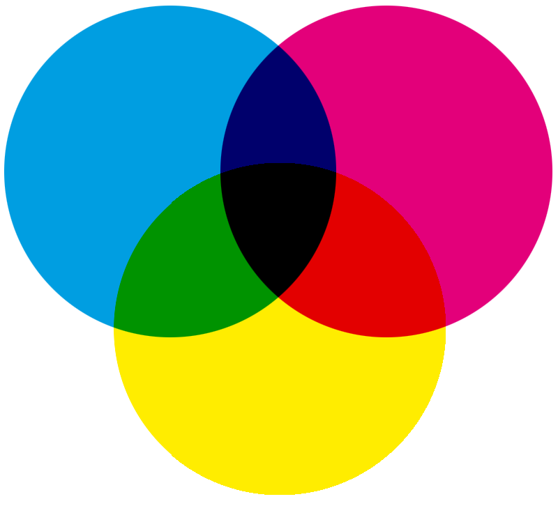 Scale of the subtractive primaries cyan, magenta, yellow (CMYK) and the effect of the overlap.